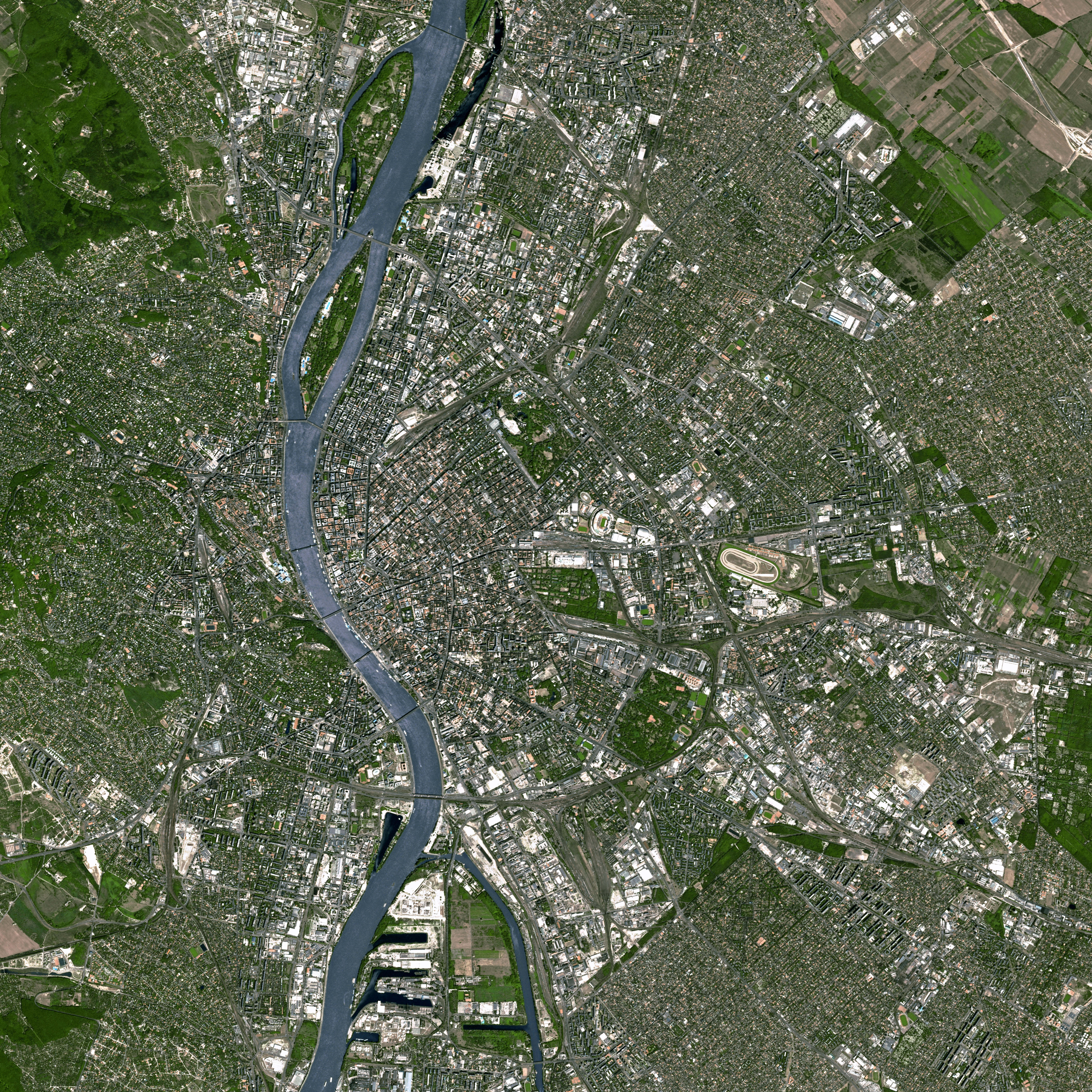 Budapest by SPOT Satellite